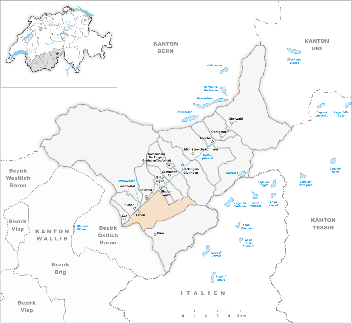 Municipality Ernen